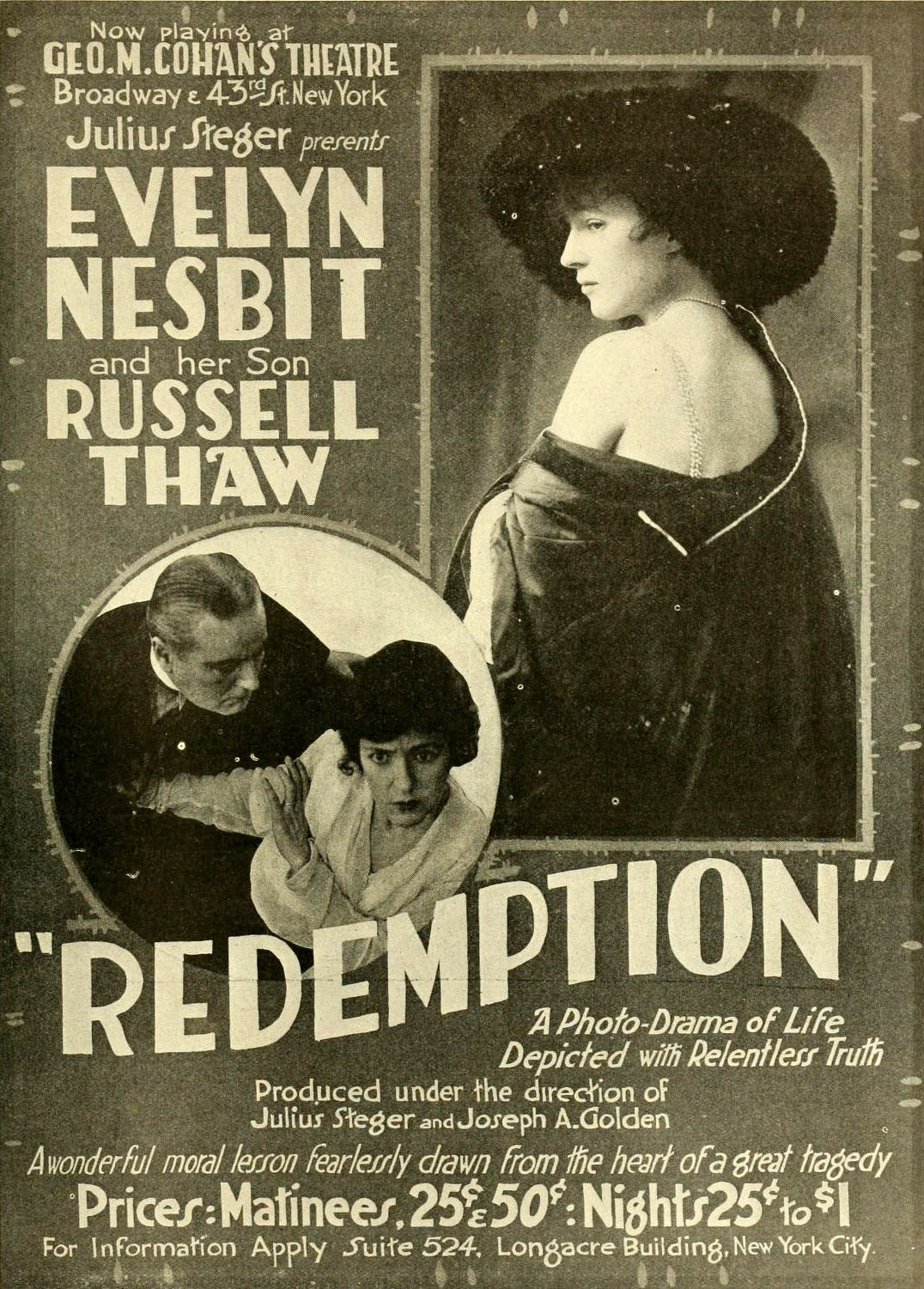 Advertisement in Moving Picture World for the film Redemption (1917).